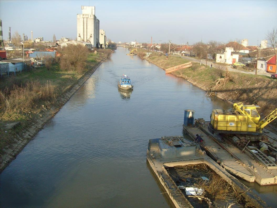 Bega Chanel in Timisoara, view from "Podul Modos", the Modos railway bridge, in the Solventul quarters